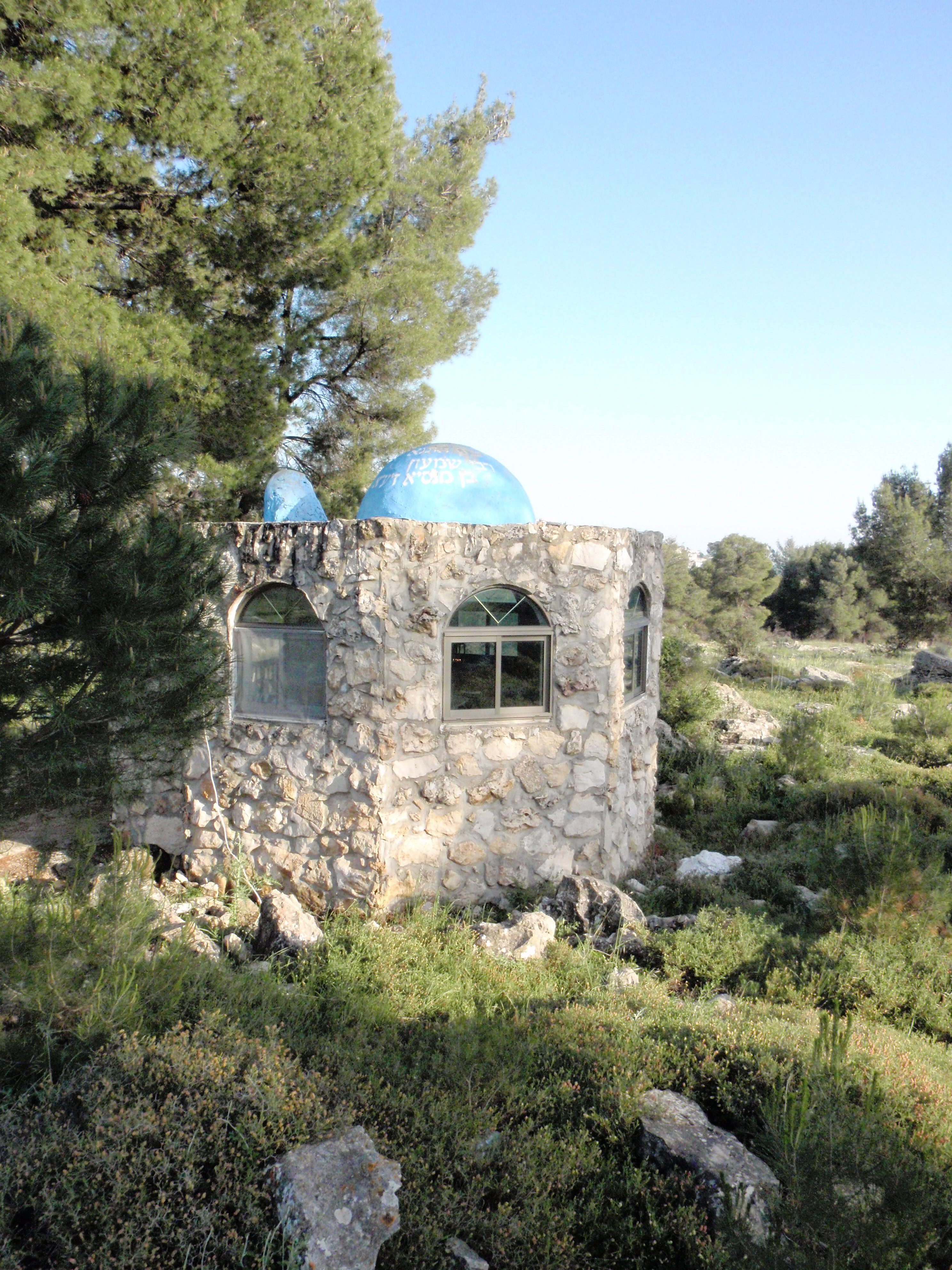 Pesach trip to the Galilee